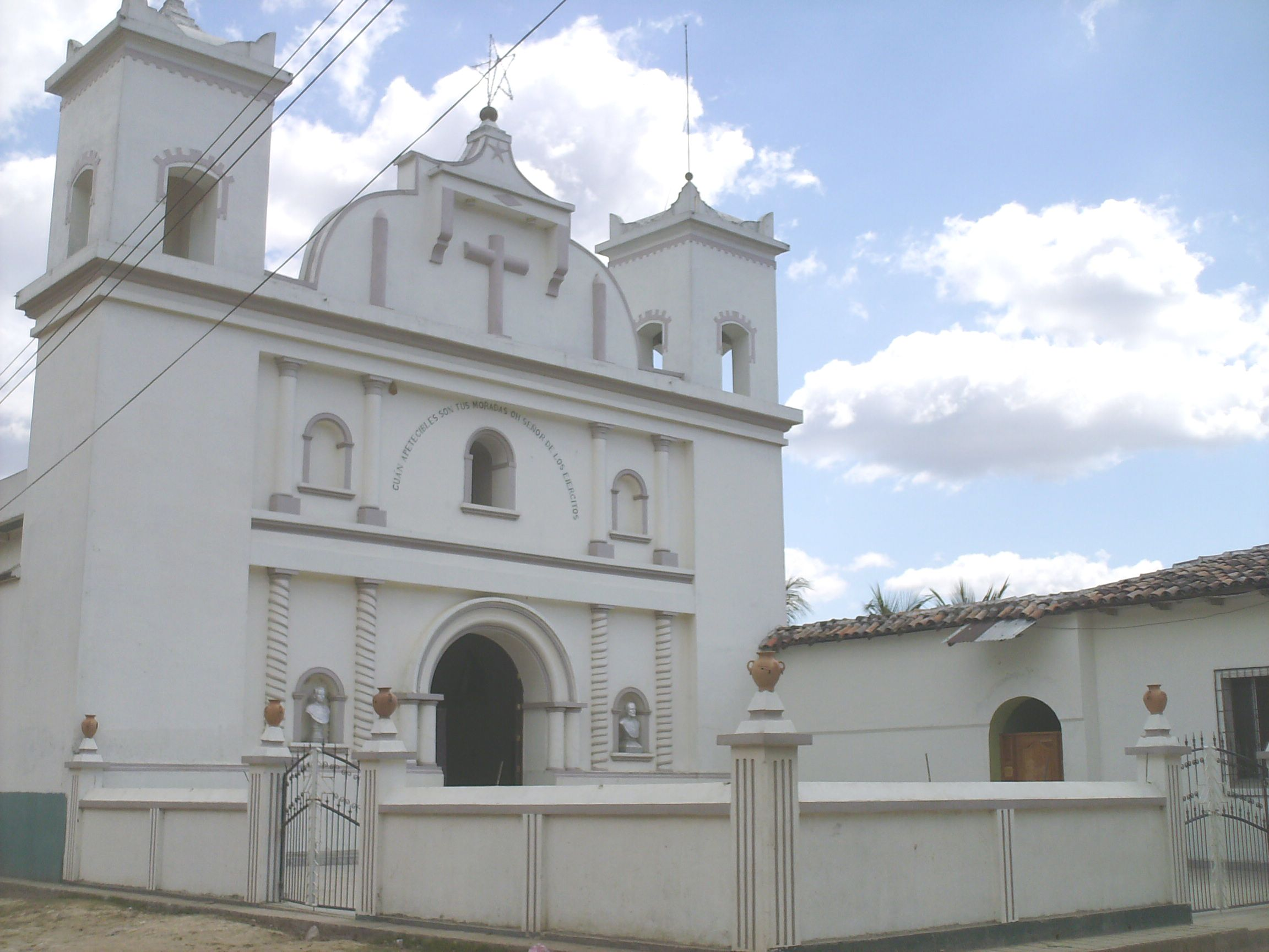 Candelaria, municipality in the Honduran department of Lempira.